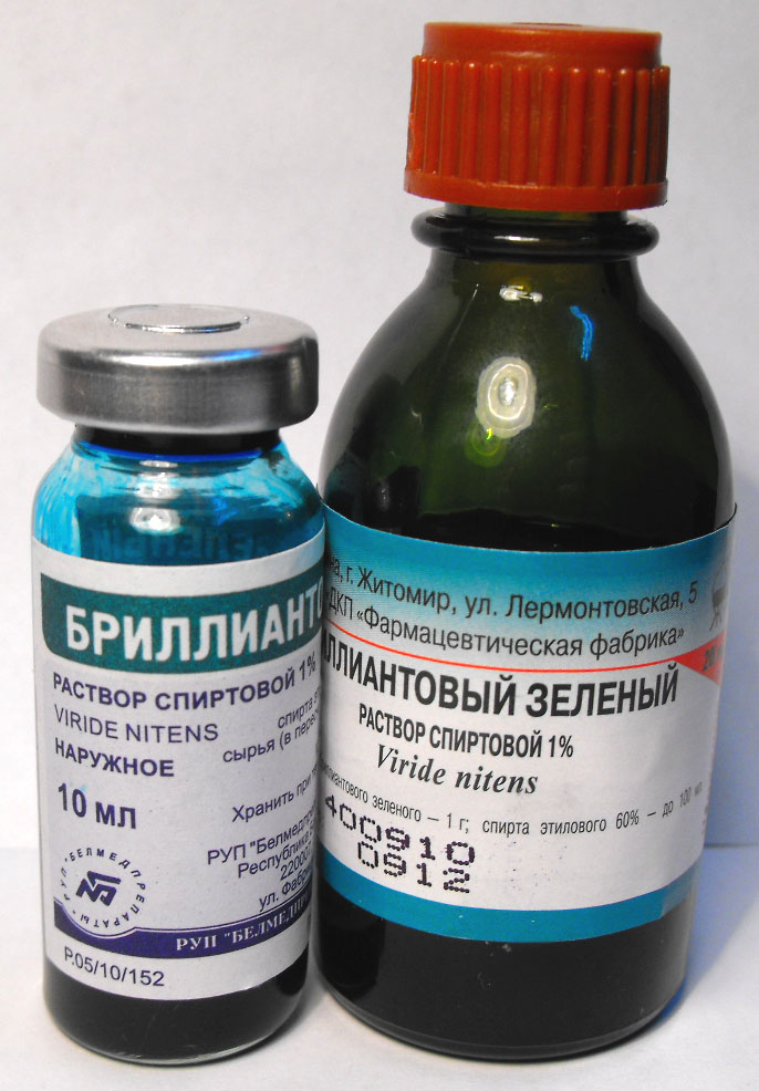 Photo of a brilliant green's solution's pack